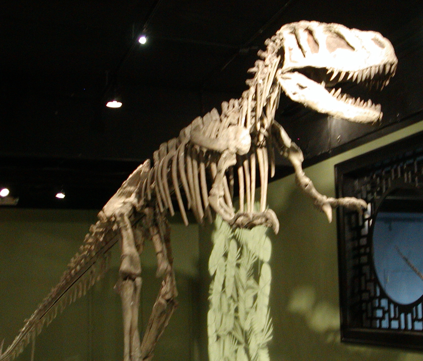 Photo of Sinraptor hepingensis skeleton from the Beijing Museum of Natural History, on view at the Miami Museum of Science.